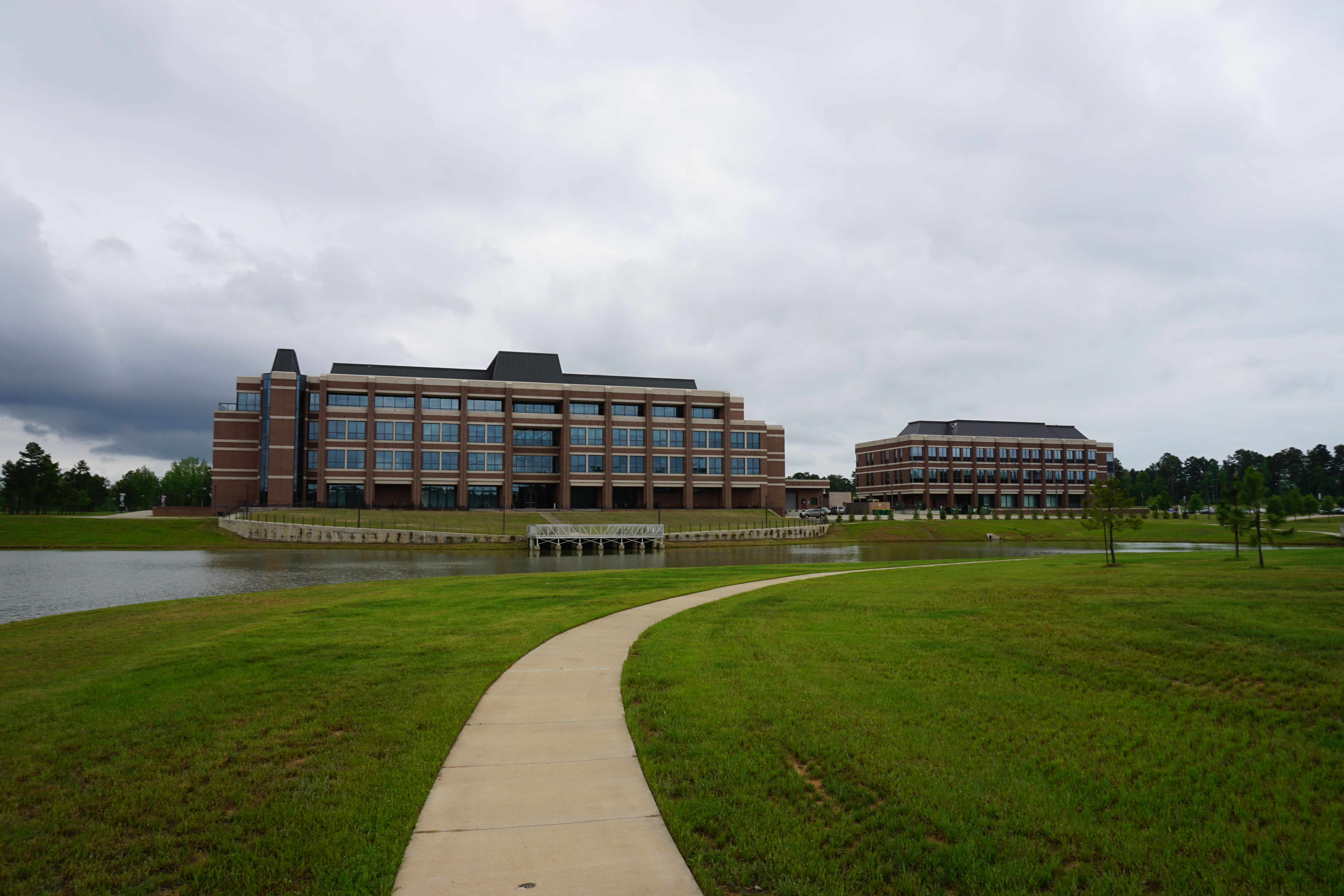 The campus of Texas A&M University–Texarkana in Texarkana, Texas (United States).